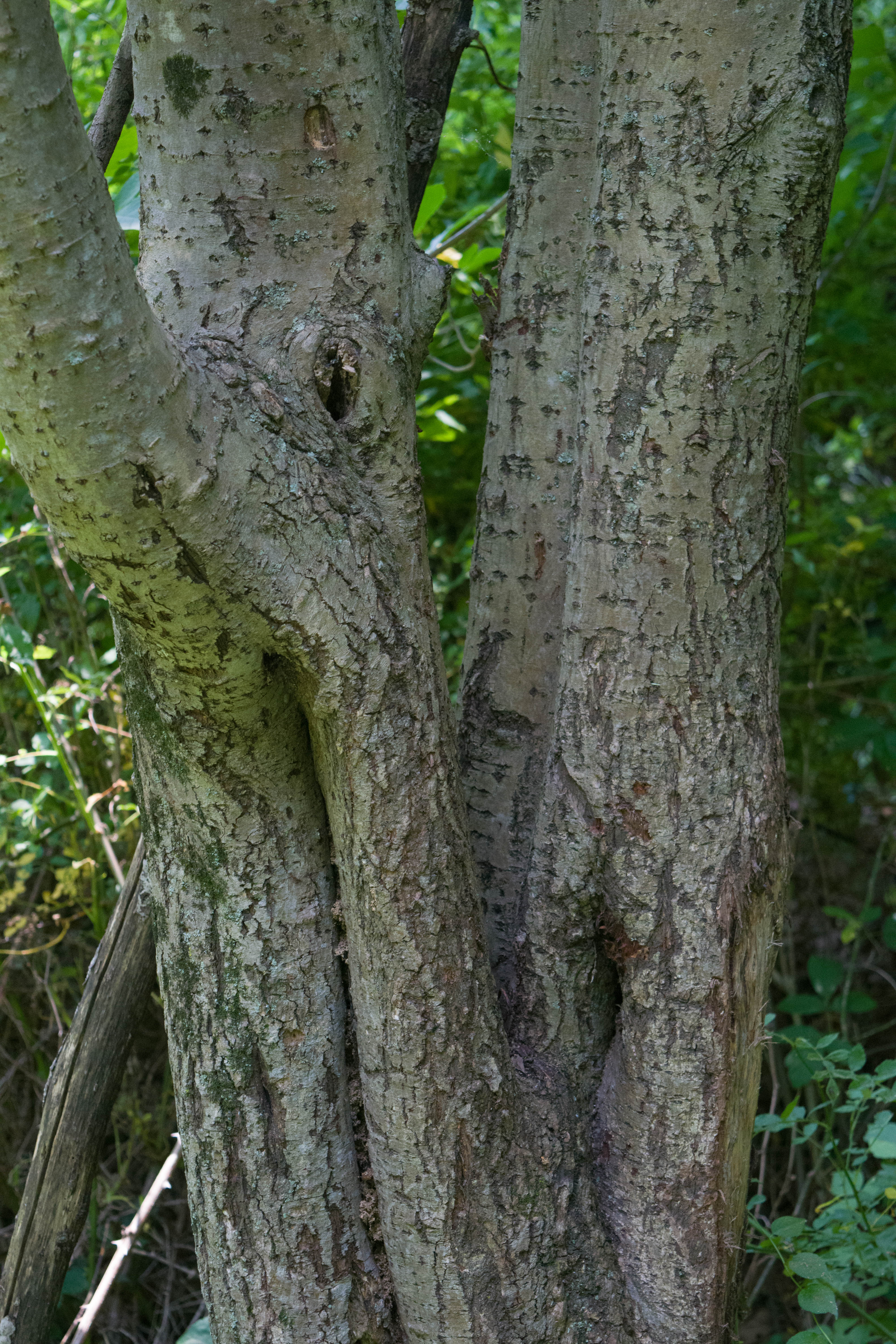 Taken in bucks county Pa, large tree.